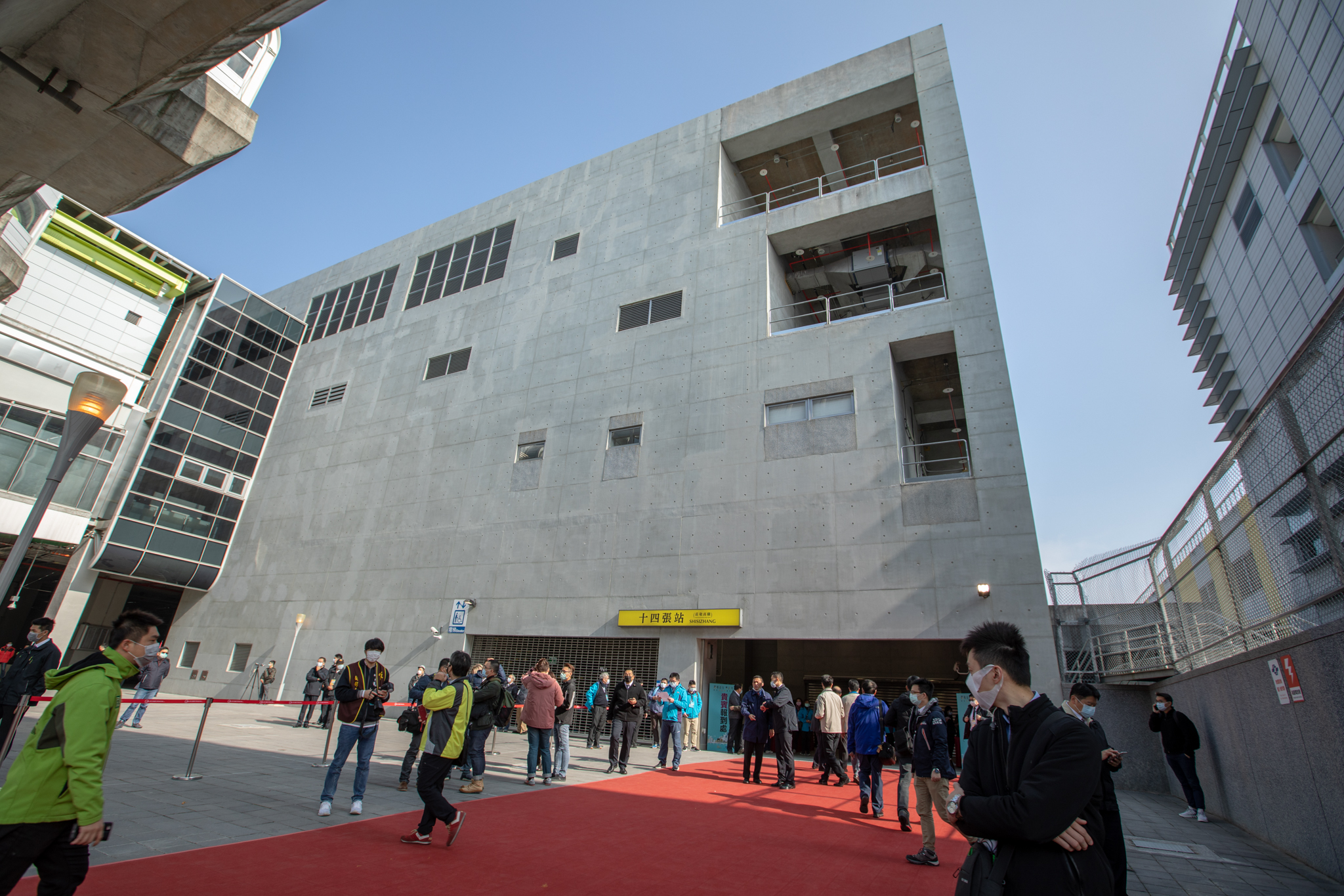 Official Photo by Wang Yu Ching / Office of the President